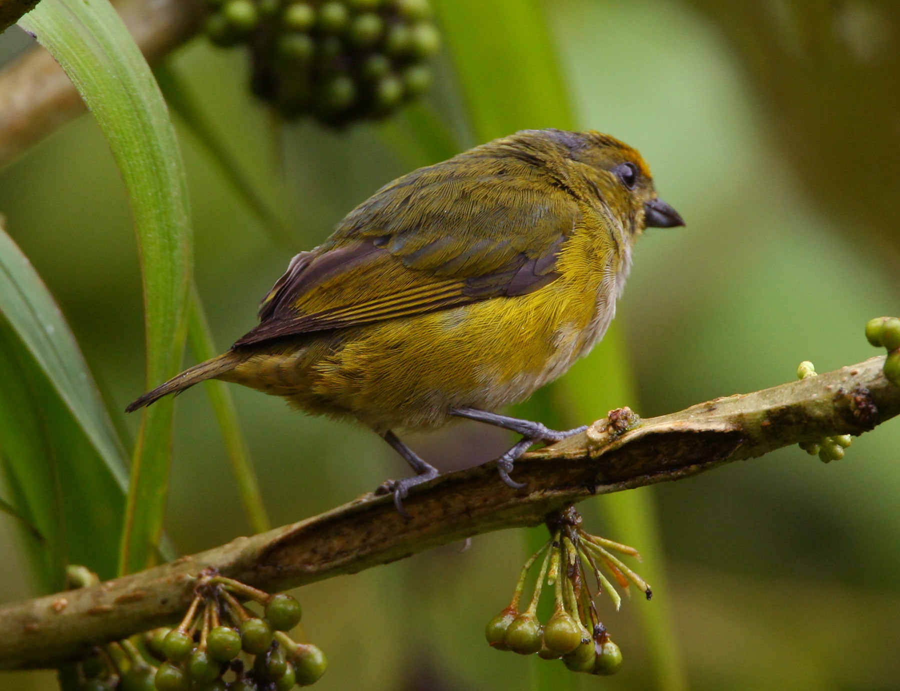 Female Orange-bellied-Euphonia (Euphonia xanthogaster), Paz de las Aves Reserve, NW Ecuador